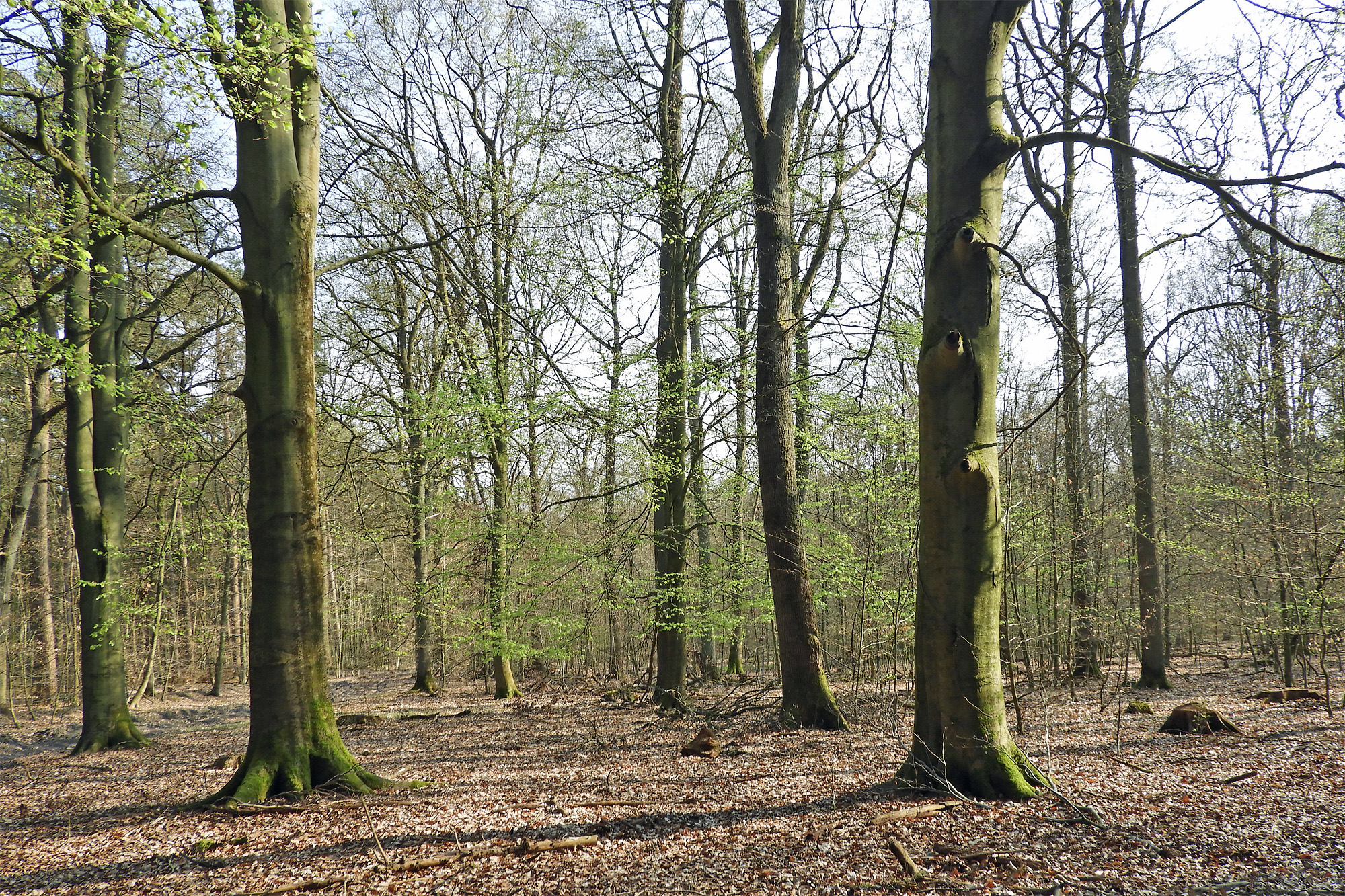 In the forest "Konau" in northern Germany.